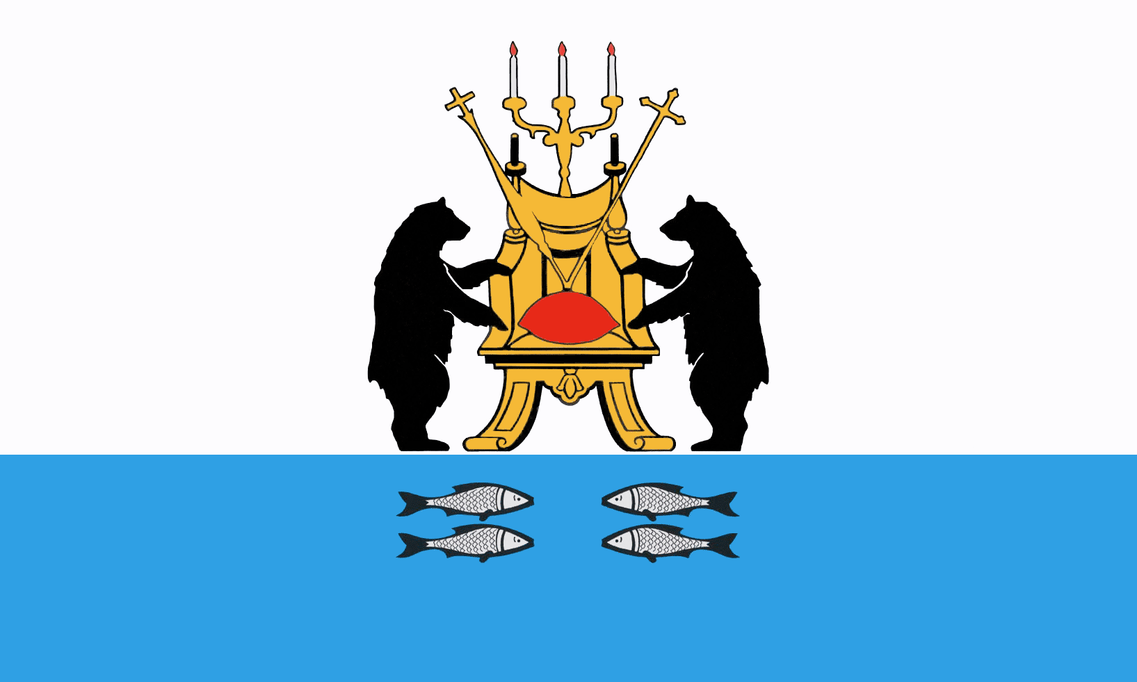 Flag of Veliky Novgorod, Novgorod Region, Russia